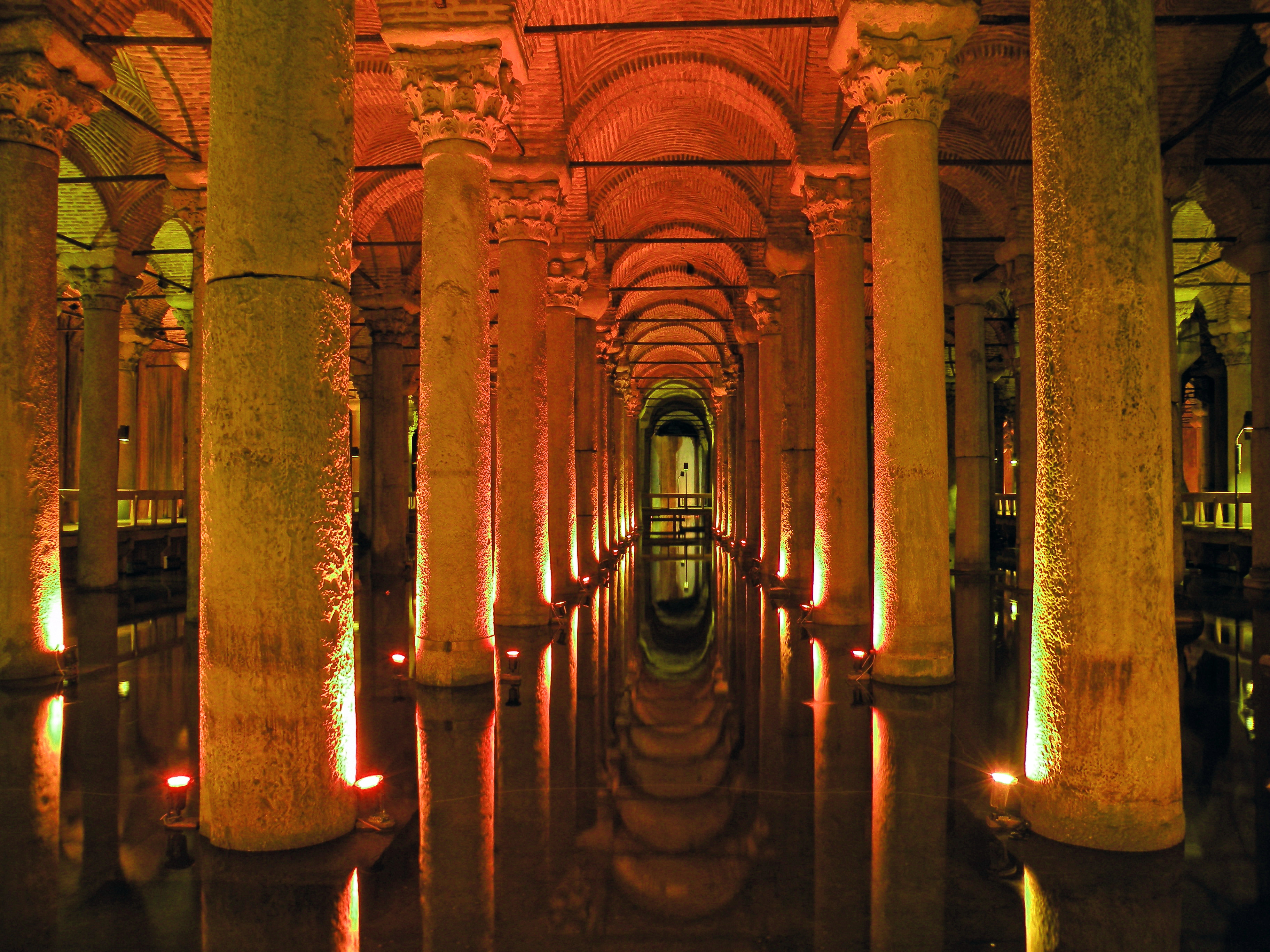 The Basilica Cistern, in Istanbul,Turkey.